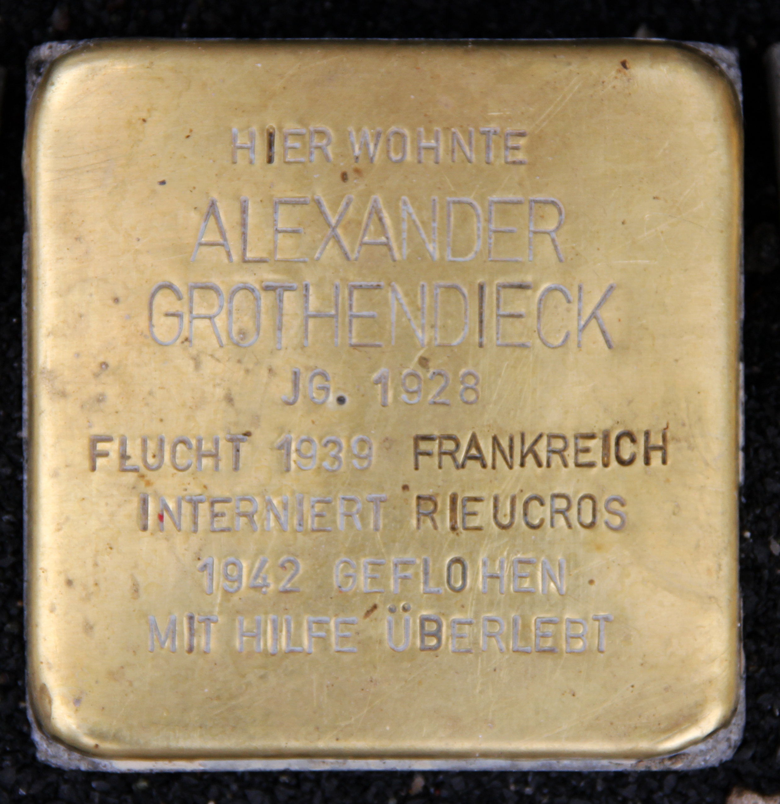 "Stolperstein" (stumbling block), Alexander Grothendieck, Brunnenstraße 165, Berlin-Mitte, Germany